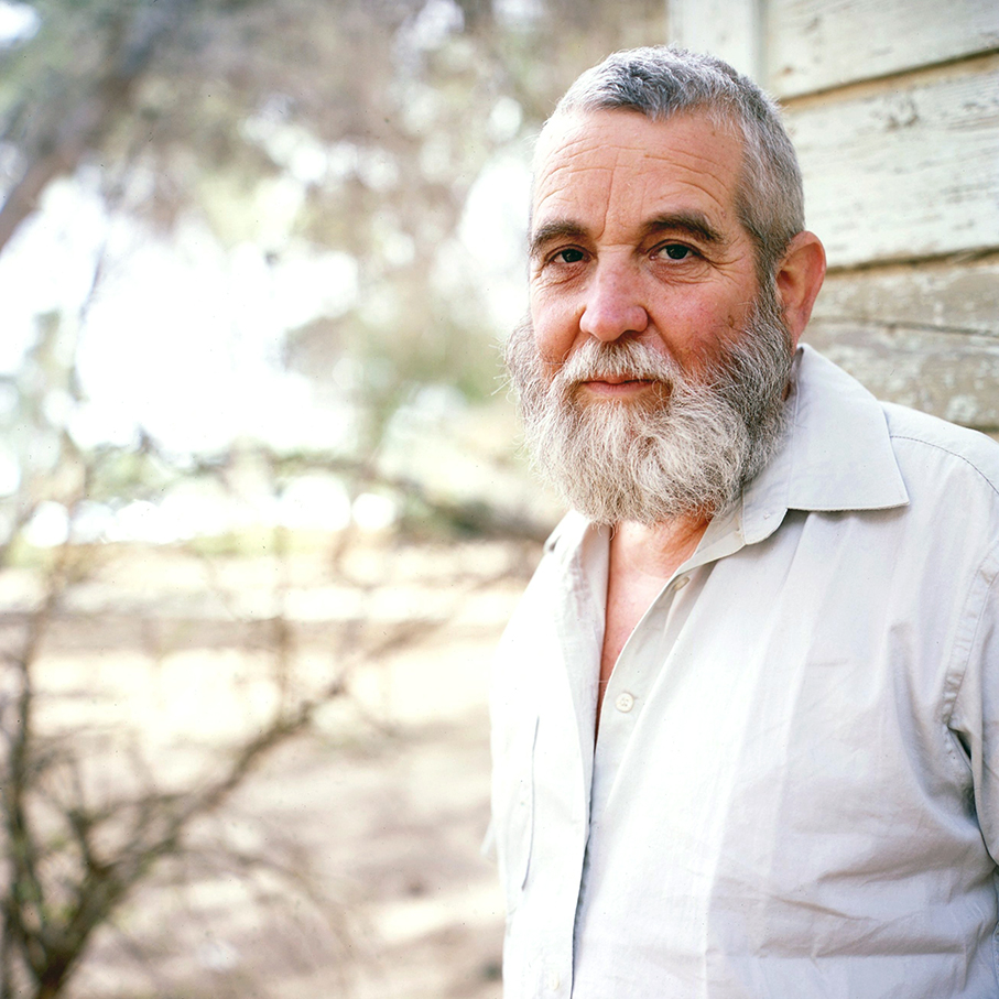 Dr. Izhar Ben Nahum